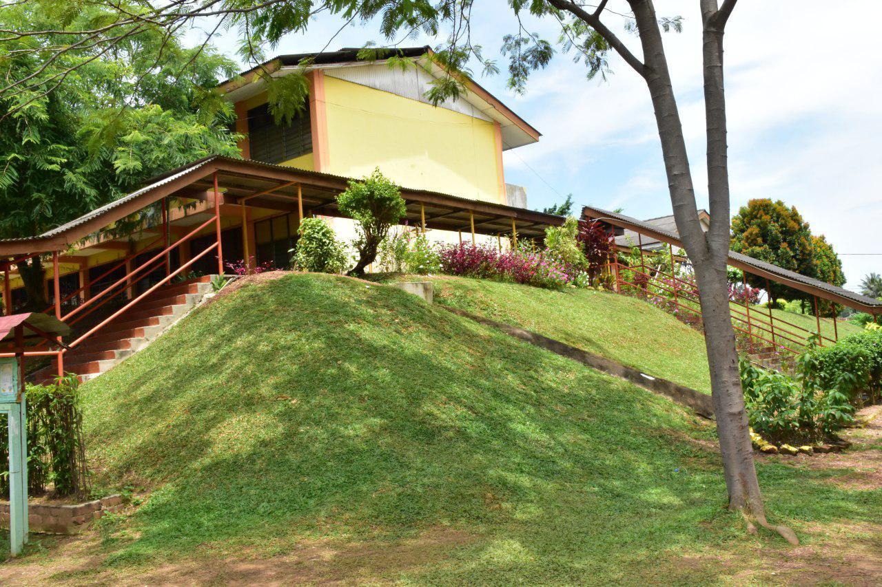 Pemandangan dari bawah